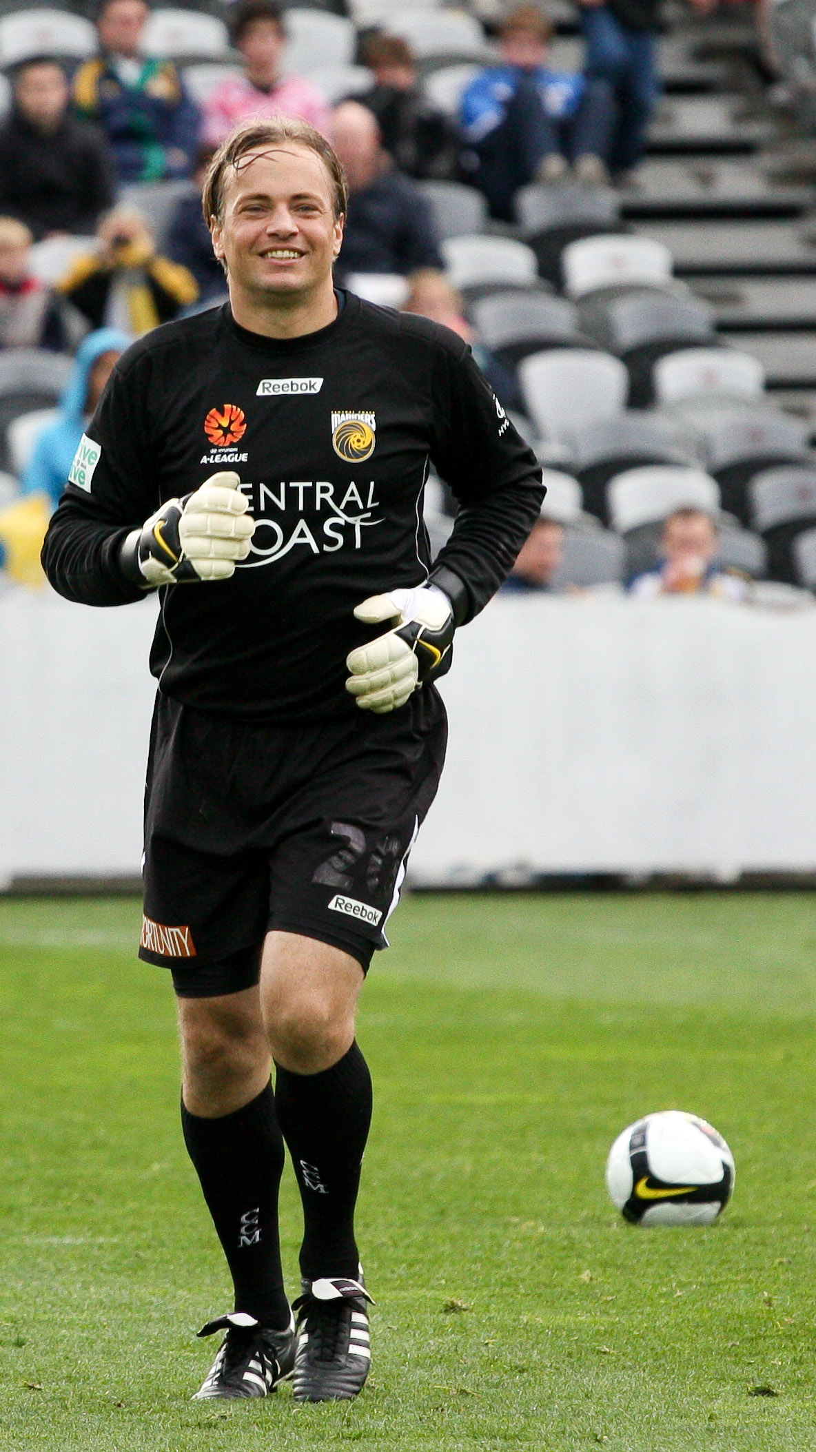 Mark Bosnich playing for the Central Coast Mariners in the 2008 Pre Season Cup game against Sydney FC